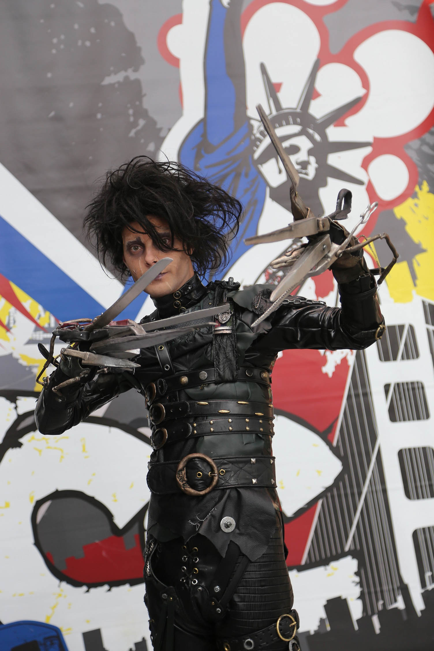 New York Comic Con 2015 - Edward Scissorhands Cosplay at the 2015 New York Comic Con (NYCC 2015).